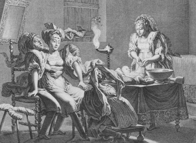 Chalcography depicting the labour of a woman in the greek archipelago by Sinnini de Manoncourt from the book "Voyage en Grece et en Turquie...", Paris 1801